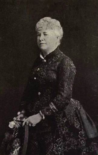 Baroness Annie Chorlotte Mountstephen by William Notman